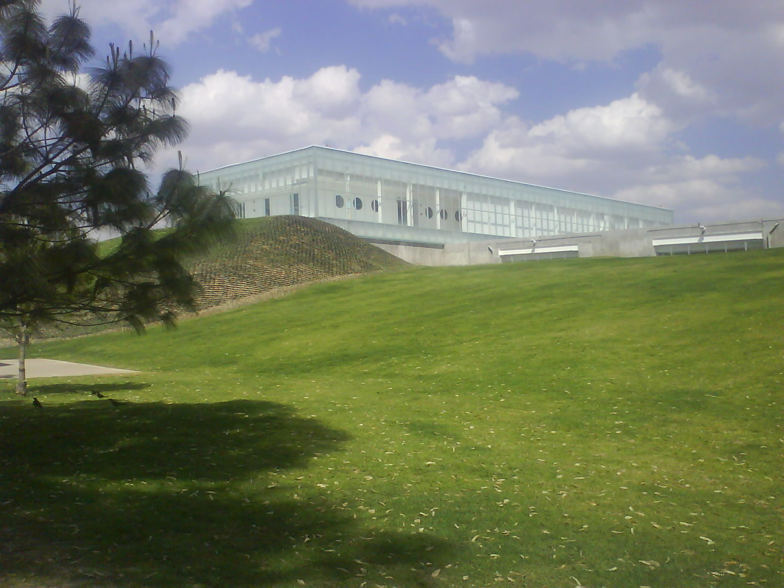 Partial view and inconclusa of the future National Laboratory of Genómica. Situated in Irapuato, Gto. Mexico.